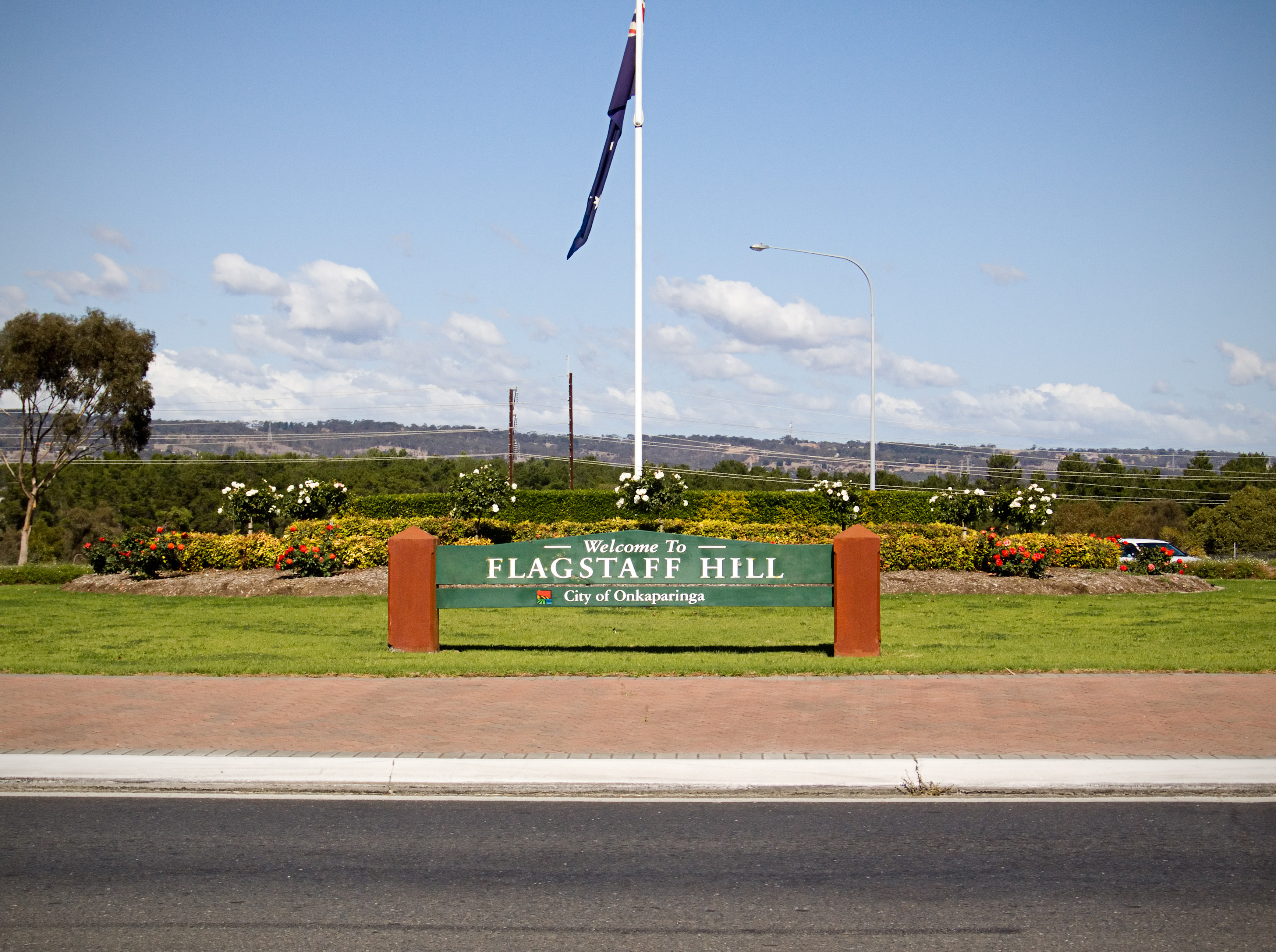 Removed ProPhoto RGB colour profile. [Photograph of the site where Colonel William Light erected his flagstaff.]